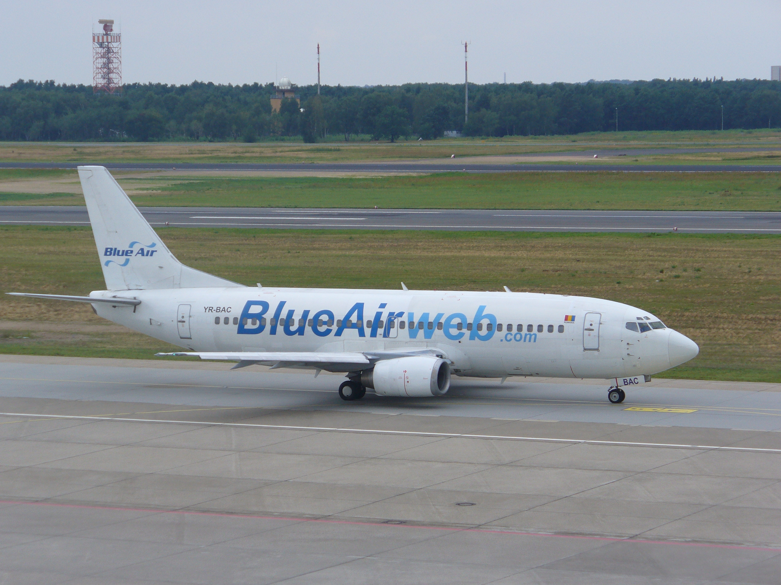 Boeing 737-300 of Blue Air at Berlin Tegel Airport